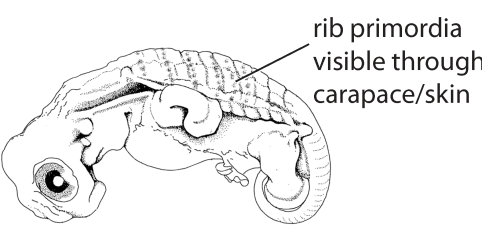 Standard Event System character depiction